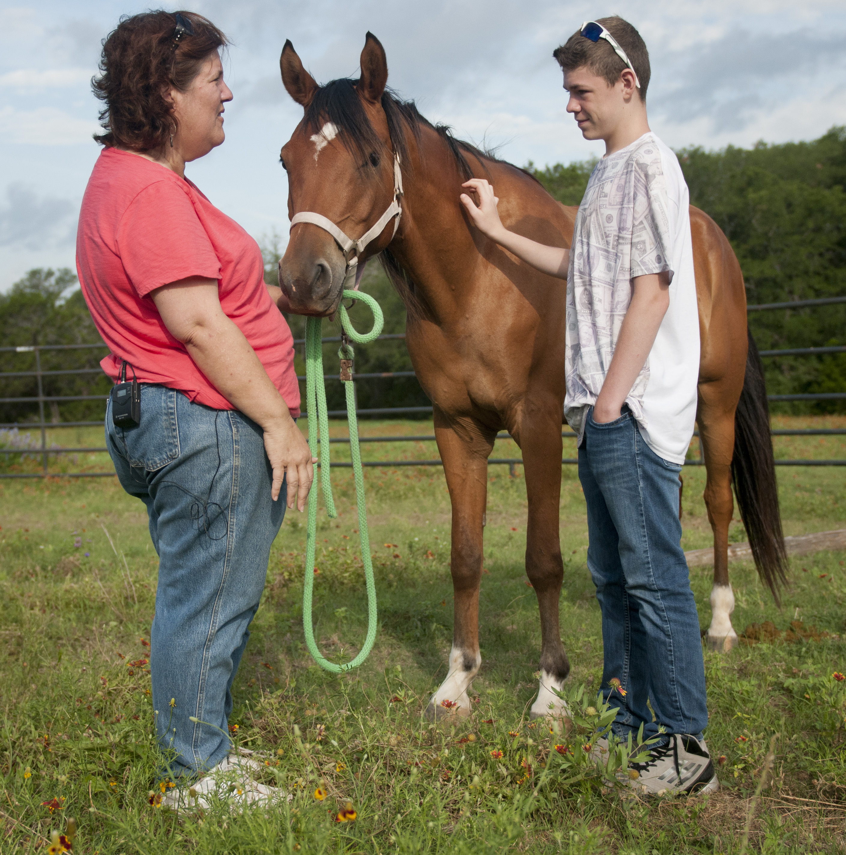 Donna Otabachian, the executive director of the Star Healing With Horses ranch, conducts an equine therapy session with Roger Flores-Hoops, 14, who suffers from secondary PTSD, June 17, 2014. SHWH, located on the sprawling Parrie Haynes Ranch south of Fort Hood, is an organization dedicated to healing all who have experienced trauma, PTSD, and secondary PTSD. Secondary PTSD is suffered mainly by the children of service members who have PTSD, as they can be traumatized by changes in their parents' personalities and the conflicts that result from those changes. SHWH has helped many of these children transform their lives. (U.S. Army photo by Sgt. Ken Scar, 7th Mobile Public Affairs Detachment)